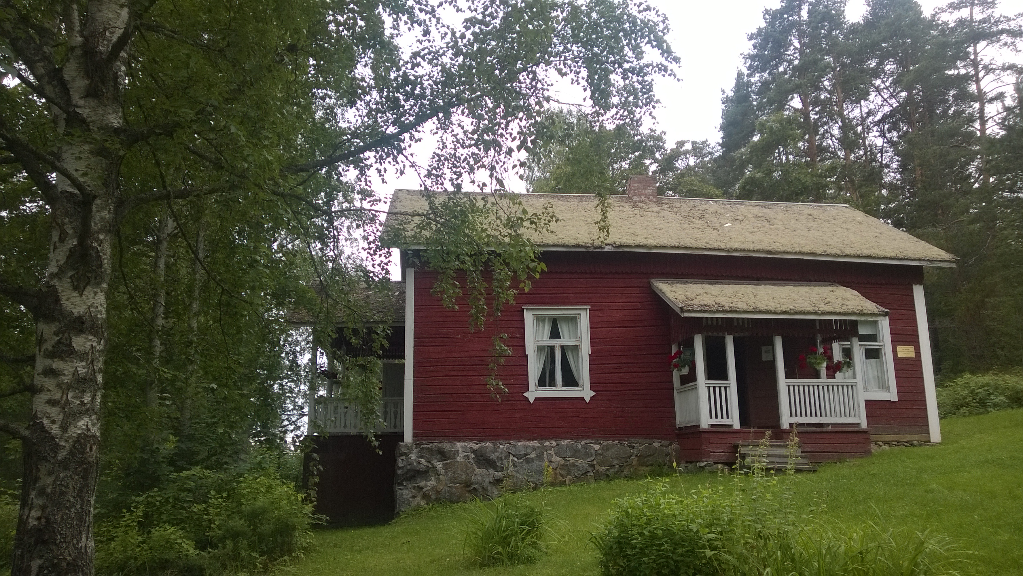 Putkinotko - Finnish writer Joel Lehtonen's house in Savonlinna.